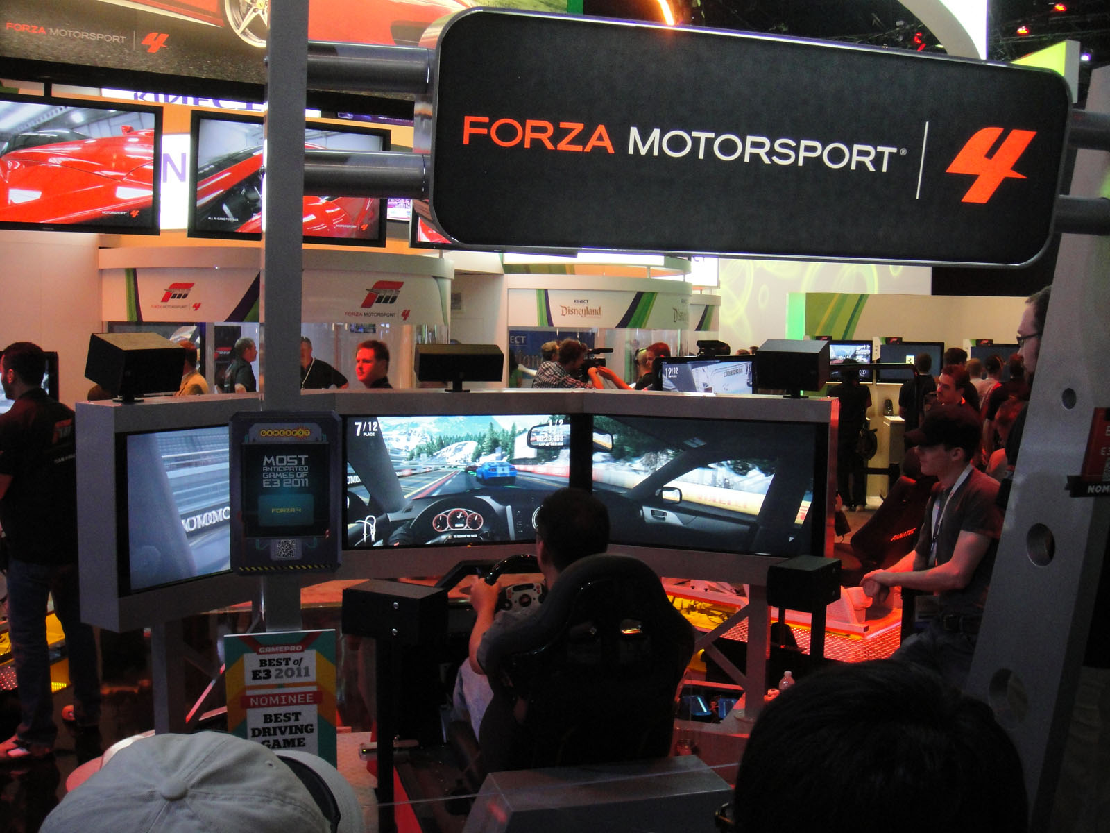 photo 2011 taken by Doug Kline If you're interested in higher resolution versions of my images, contact me via my profile page.